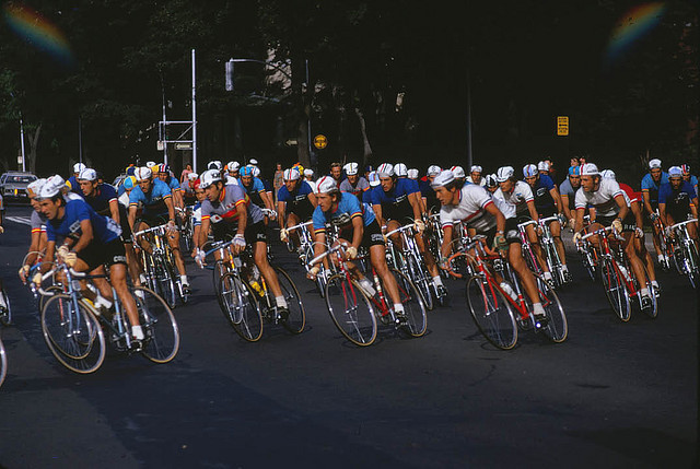 1974 World Championship Road Race Montreal Canada